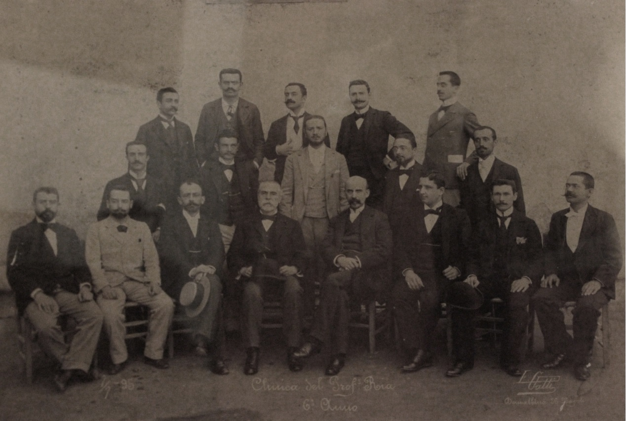 Picture of Ria Clinic Class